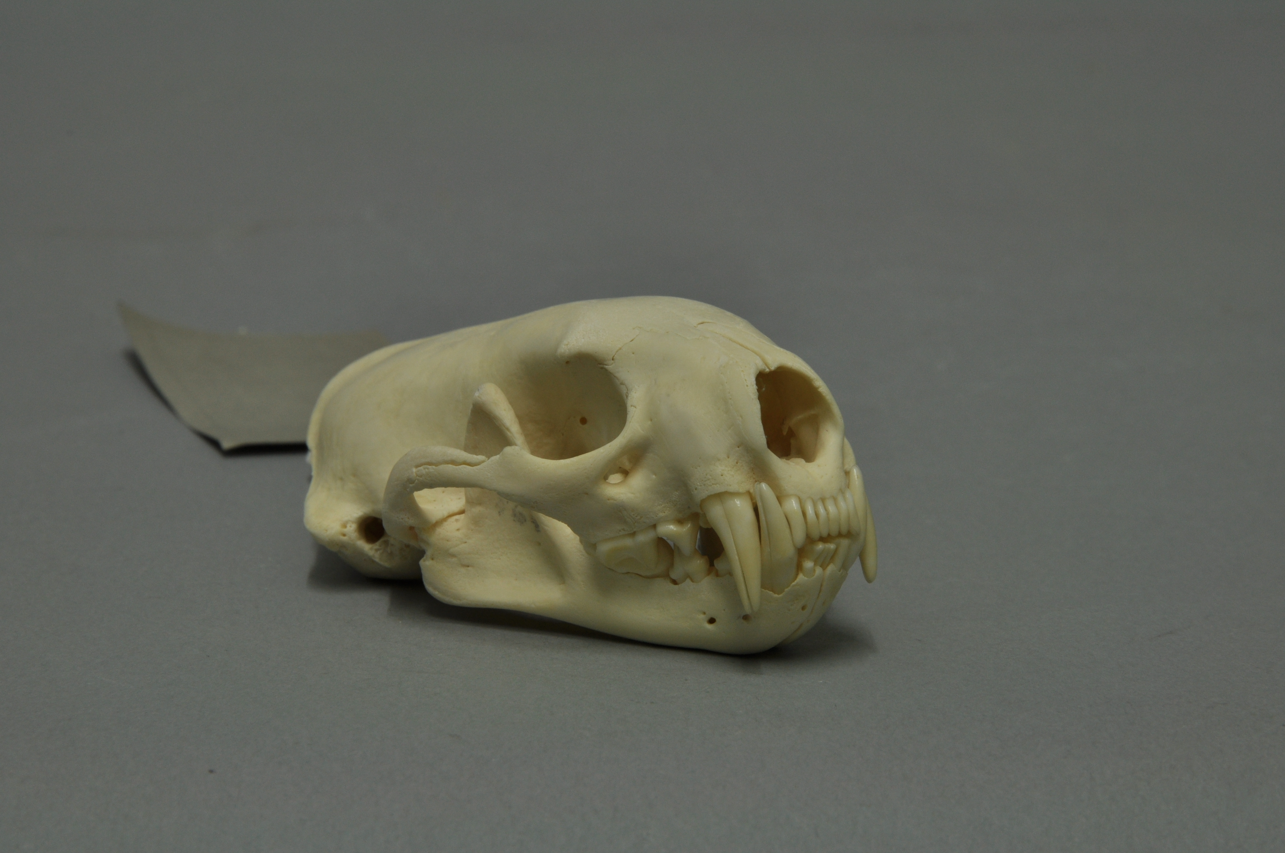 European polecat Mustela putorius , skull, Coll. Museum Wiesbaden